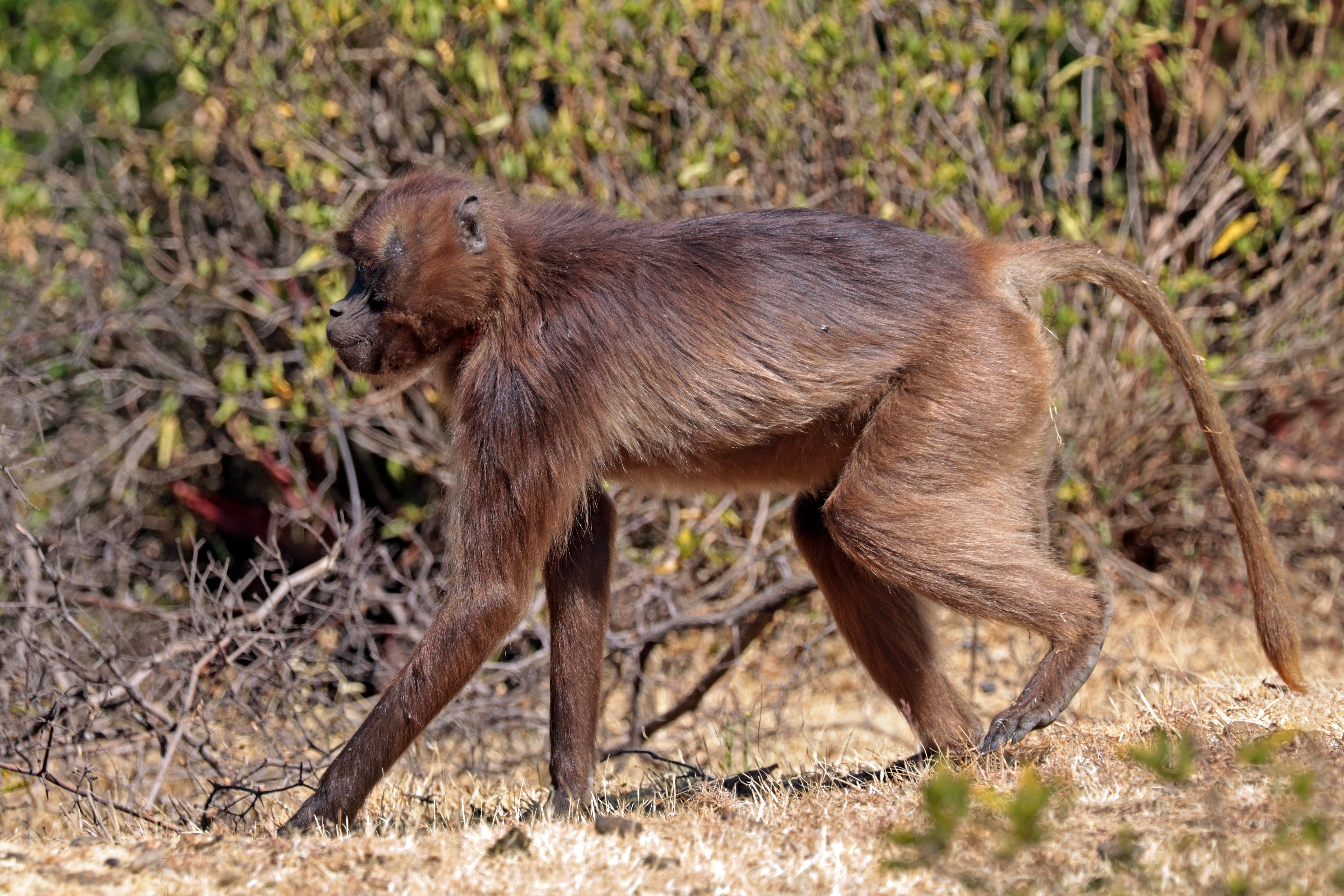 Gelada (Theropithecus gelada gelada), female, near Debre Libanos, Ethiopia